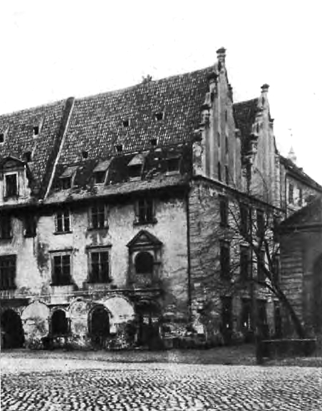 Wrocław, old cloth house, demolished in 1859, south-east corner